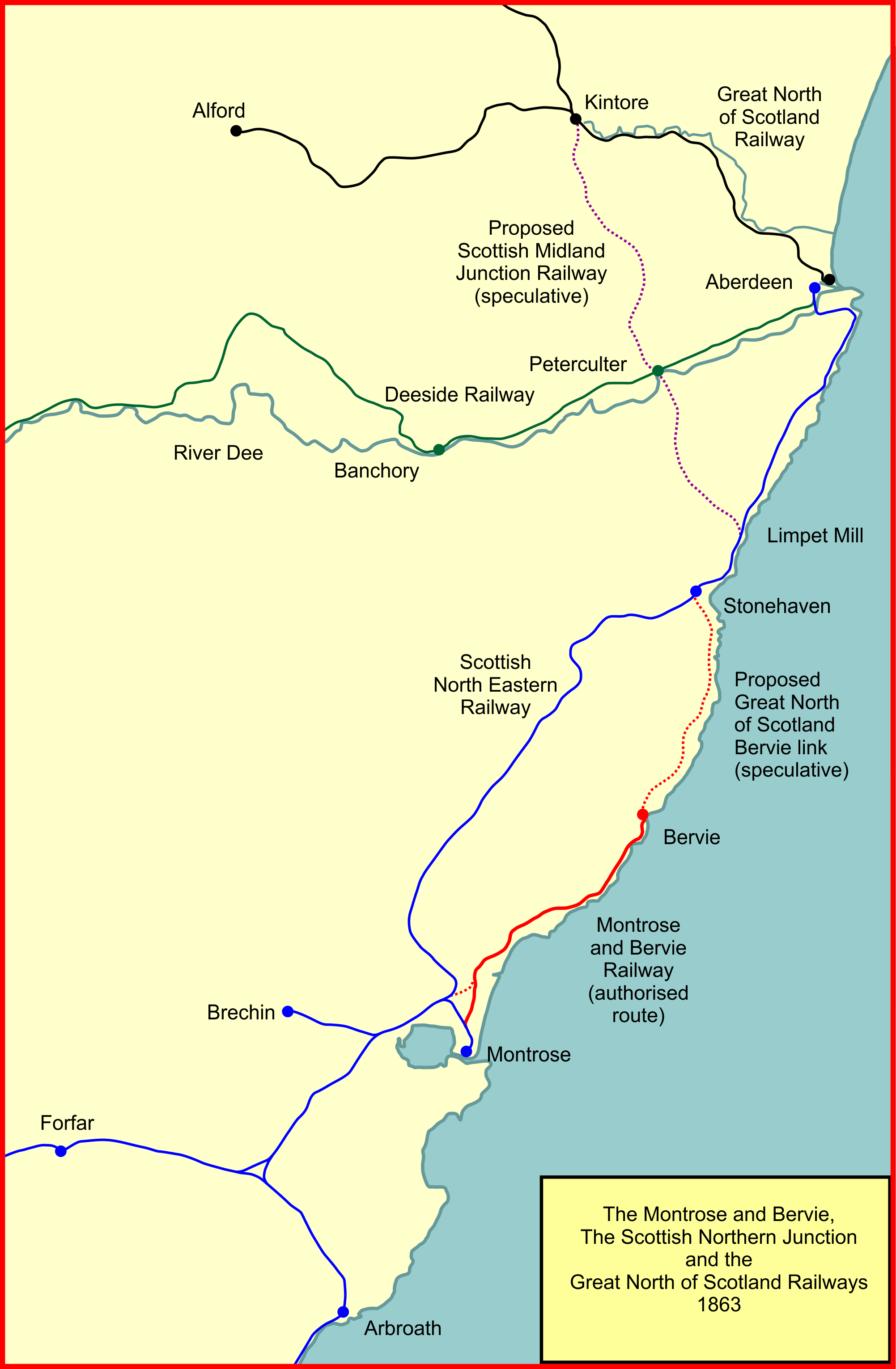 The Montrose and Bervie Railway and the Scottish Northern Junction Railway proposal